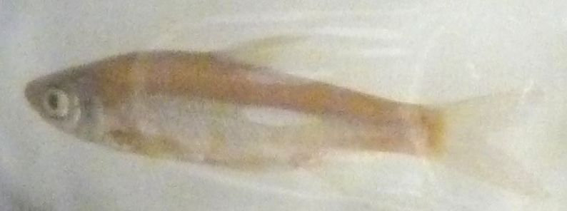 Specimen of Ischikauia steenackeri at Osaka Museum of Natural History